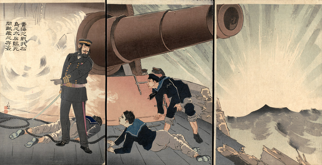 Matsushima Gun firing